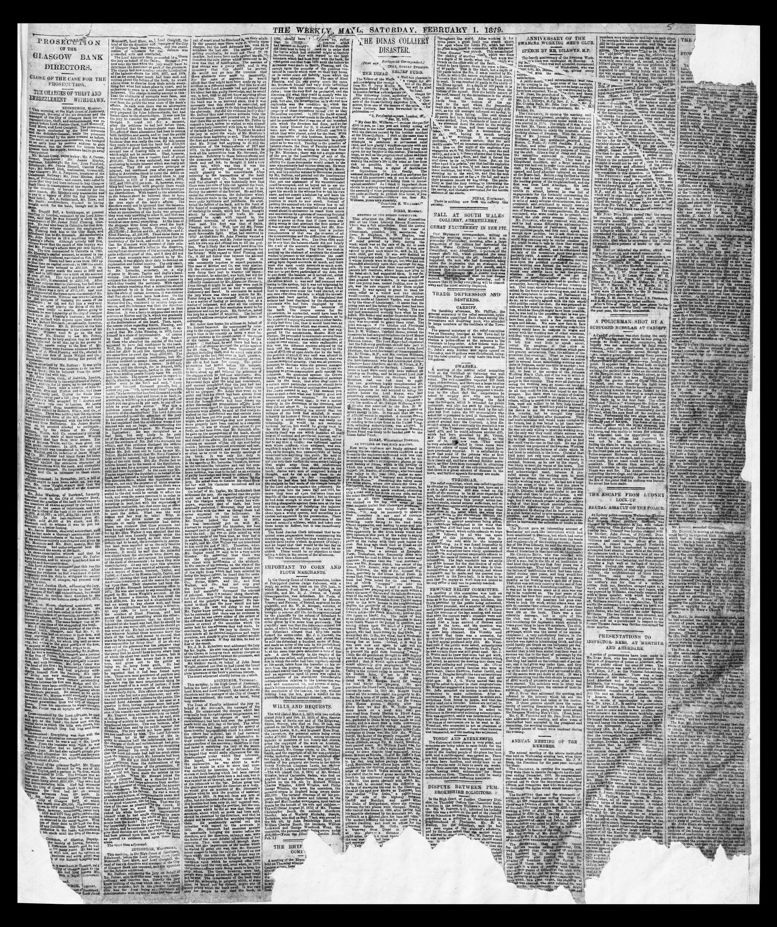 Front page of the earliest surviving copy of the Welsh newspaper Weekly Mail